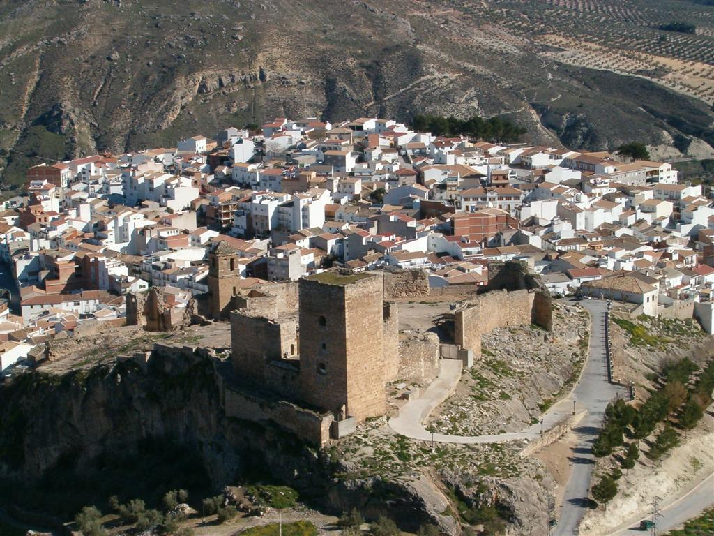 Spanish castle of Arabic origin (seventh century) in La Guardia de Jaén, Jaén, Andalusia, Spain. One of the first Arabic castles built on the ruins Iberian Peninsula (Iberian oppidum) and Romans. The current configuration responds to the renovation of the castle as manor house of Mexia Carrillo House in XV and XVI century.